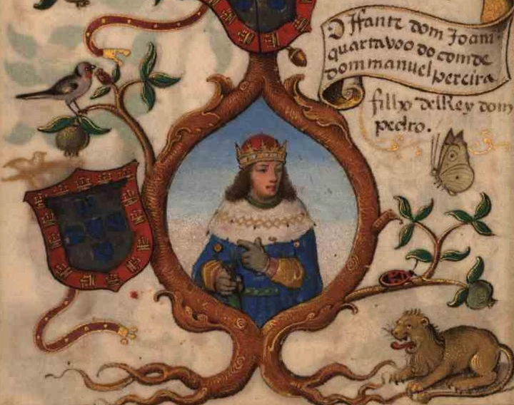 John of Portugal (1352-1387), Infante of Portugal and Duke of Valência de Campos.